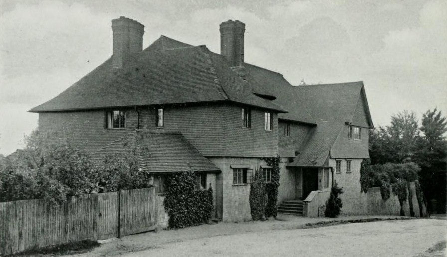 Front view of "Broad Dene", an arts and crafts style house on Hill road, Haslemere, Surrey, built in 1900. Designed by W. F. Unsworth and Inigo Triggs